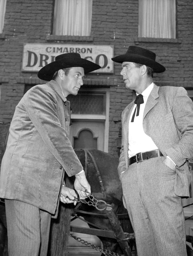 Photo of George Montgomery as Matthew Rockford and guest star Fred MacMurray from the television western series Cimarron City. The item has no copyright markings on it as can be seen in the links above.